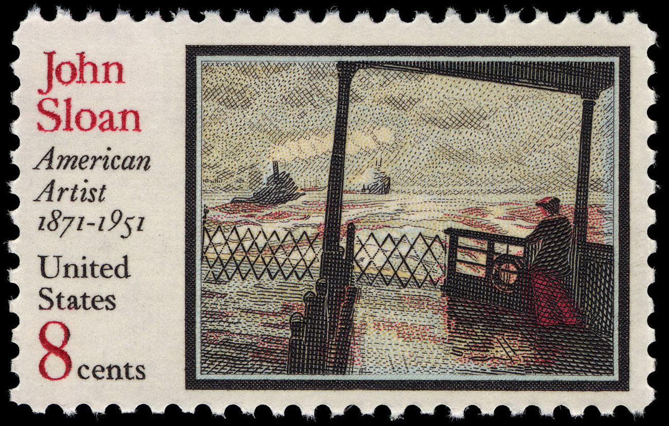 US stamp honoring John Sloan - American Artist 1871-1951 - 8-cent 1971 issue.